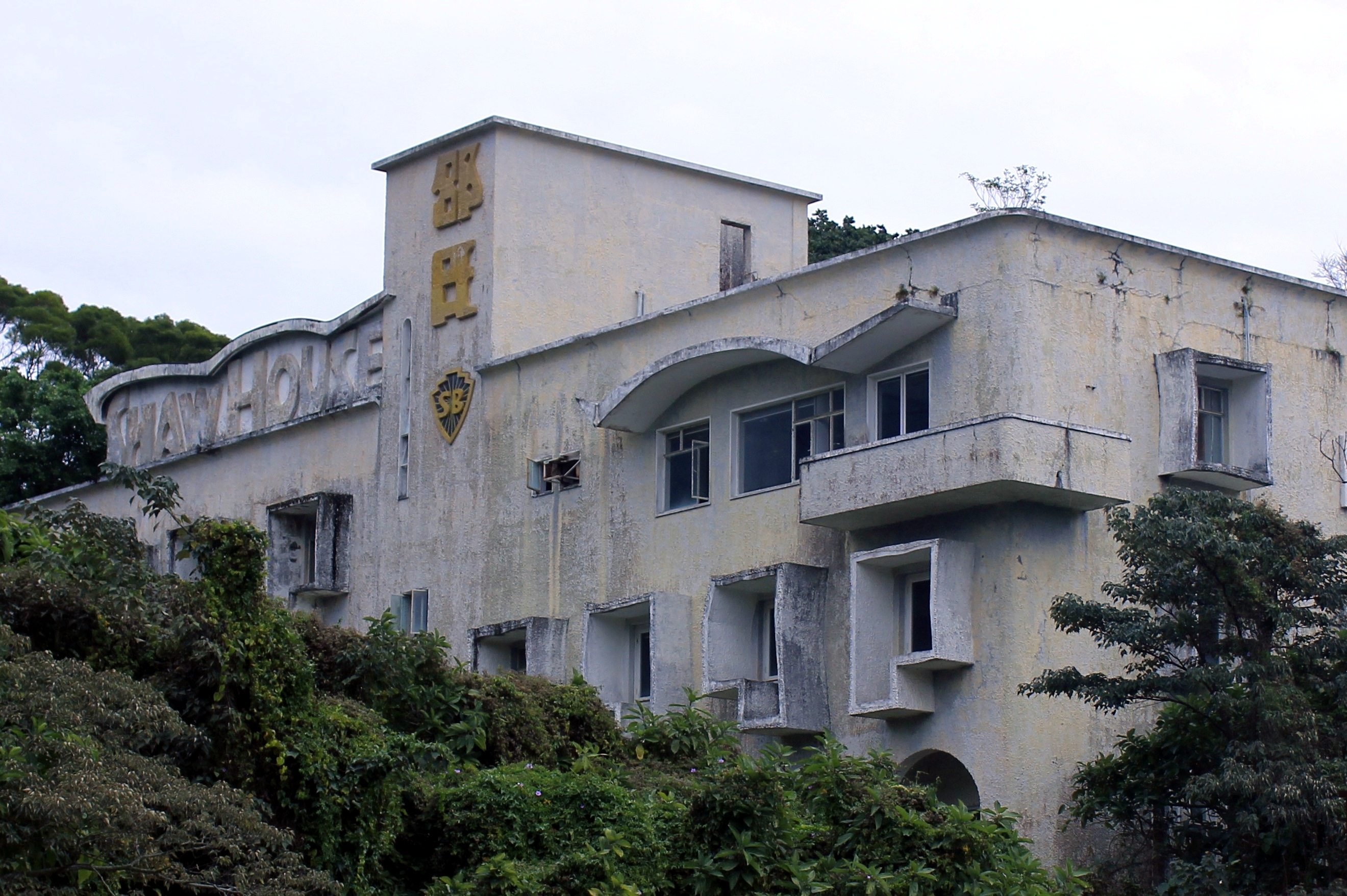 This administration building, also called the Shaw House, is located inside the former Shaw Brothers Studio in Sai Kung.